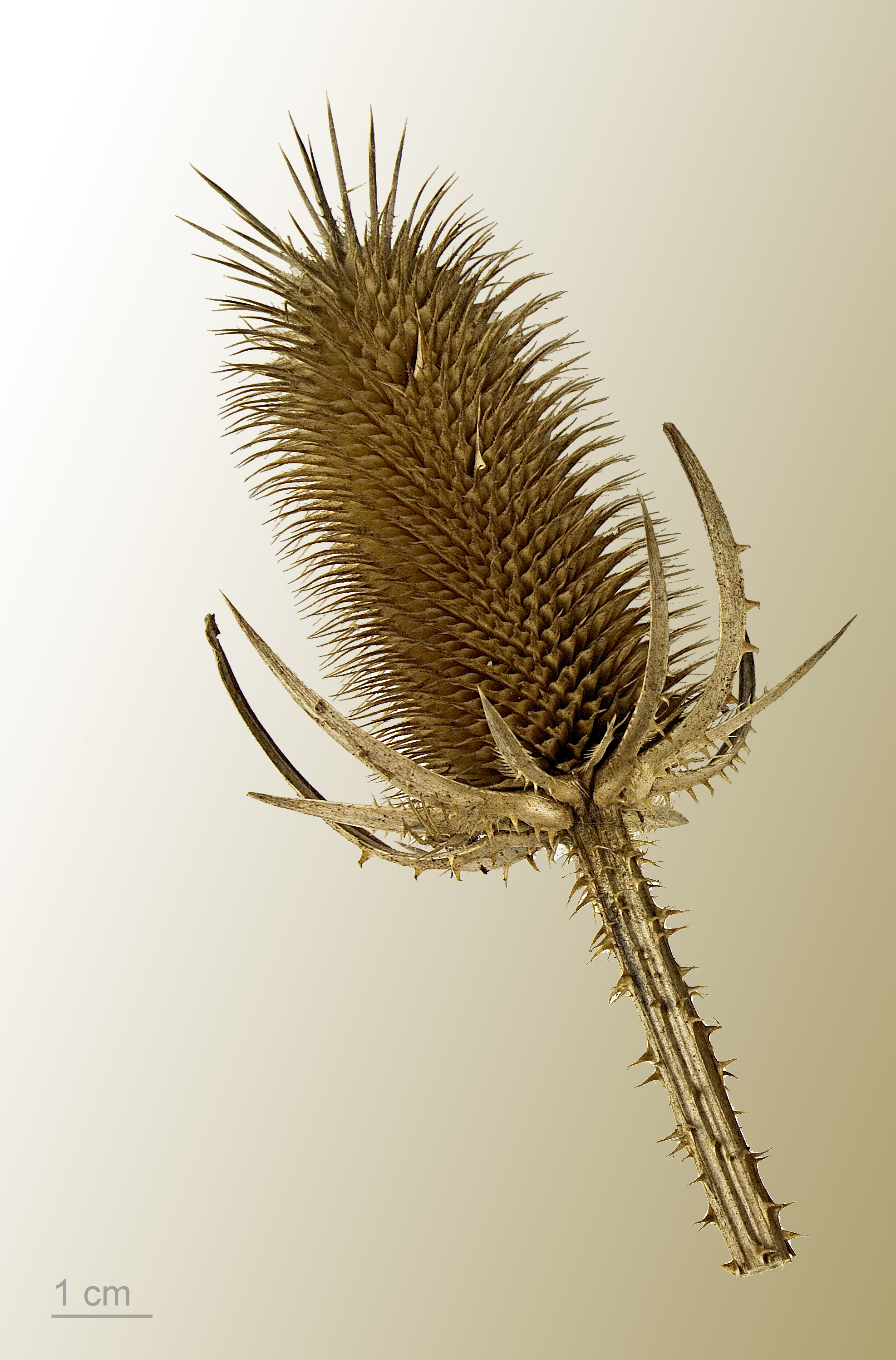 Dipsacus laciniatus , fruits and seeds